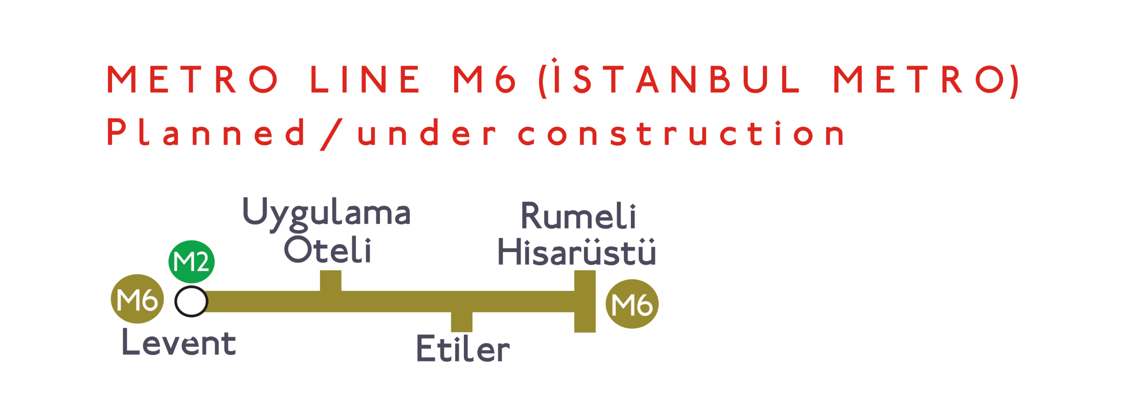 Mini Metro Metro Levent-Rumeli Metro Istanbul